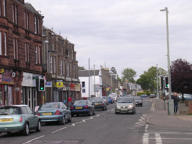 Monifieth